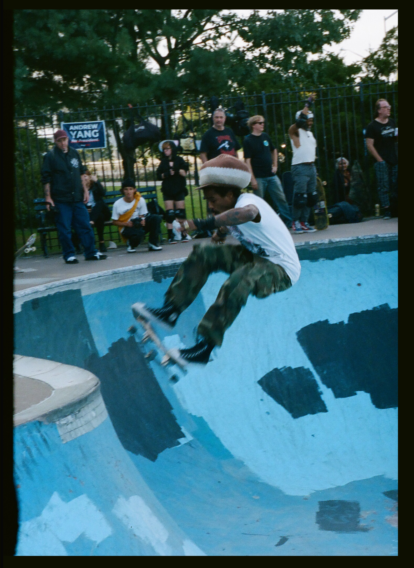 Julio Pineda with the bowl ollie at Millennium Skate Park aka Owl's Head Skate Park during NYC Skate Coalition's Pool Series event - October 2019